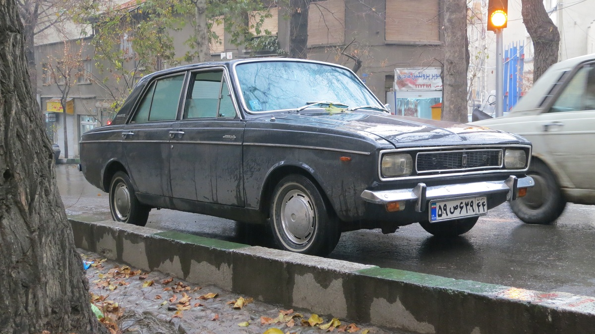 IranNational built 1971 Paykan DeLuxe